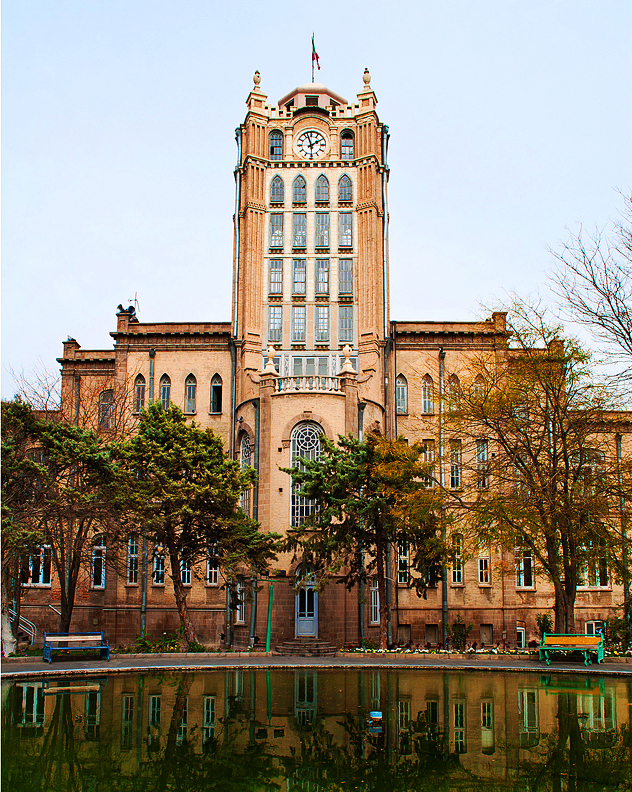 Saat Tower — Municipality of Tabriz.